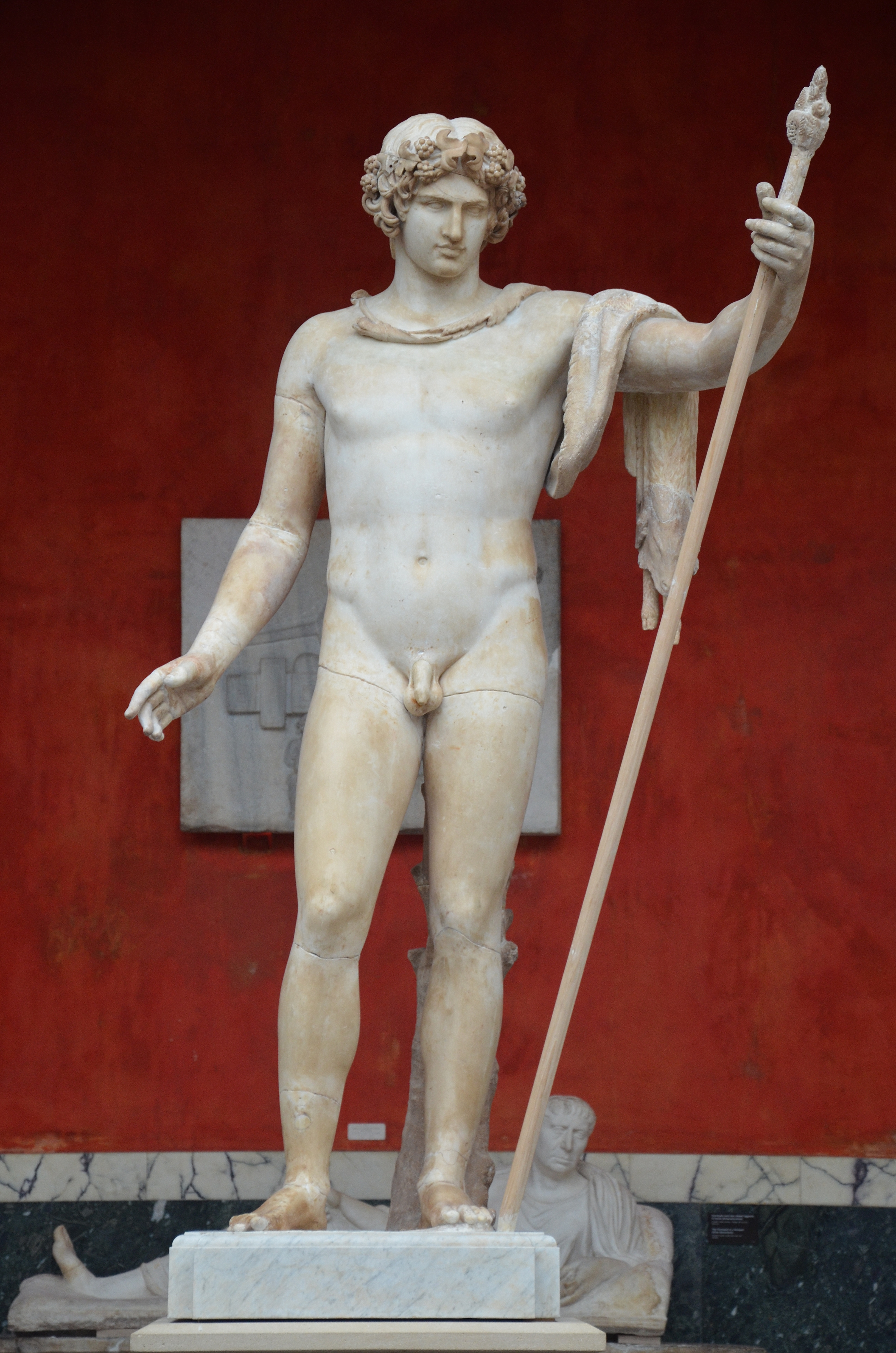 Inv. N° 1960, exhibited in the "Festsal." Found ca. 1700 in the Garden of the now-demolished Villa Casali in Rome. Called the "Antinous Casali," after its origin. «Der Kopf wird von vielen für den schönsten gehalten» (Friedrich von Ramdohr, 1787)